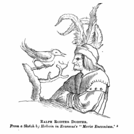 Ralph Roister Doister, main character of a 1553 play by Nicholas Udall, generally regarded as the first comedy to be written in the English language, illustration to English Plays, by Henry Morley, Cassell's Library of English Literature, 1891. Caption says from a sketch by Hans Holbein the Younger in Desiderius Erasmus's Moriae Encomium (The Praise of Folly) (1515/16).